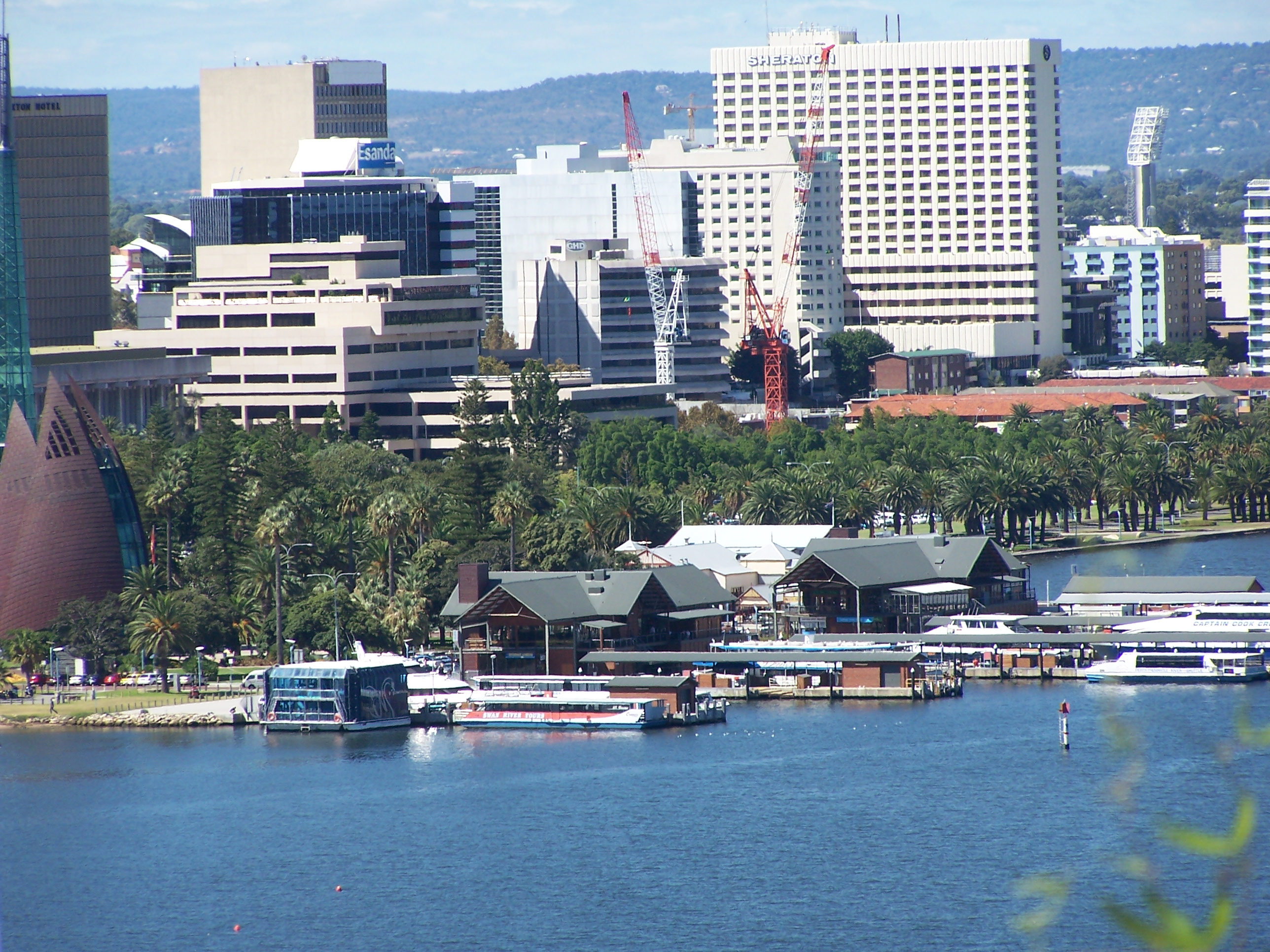 Barrack square and Jetties taken from Kings Park